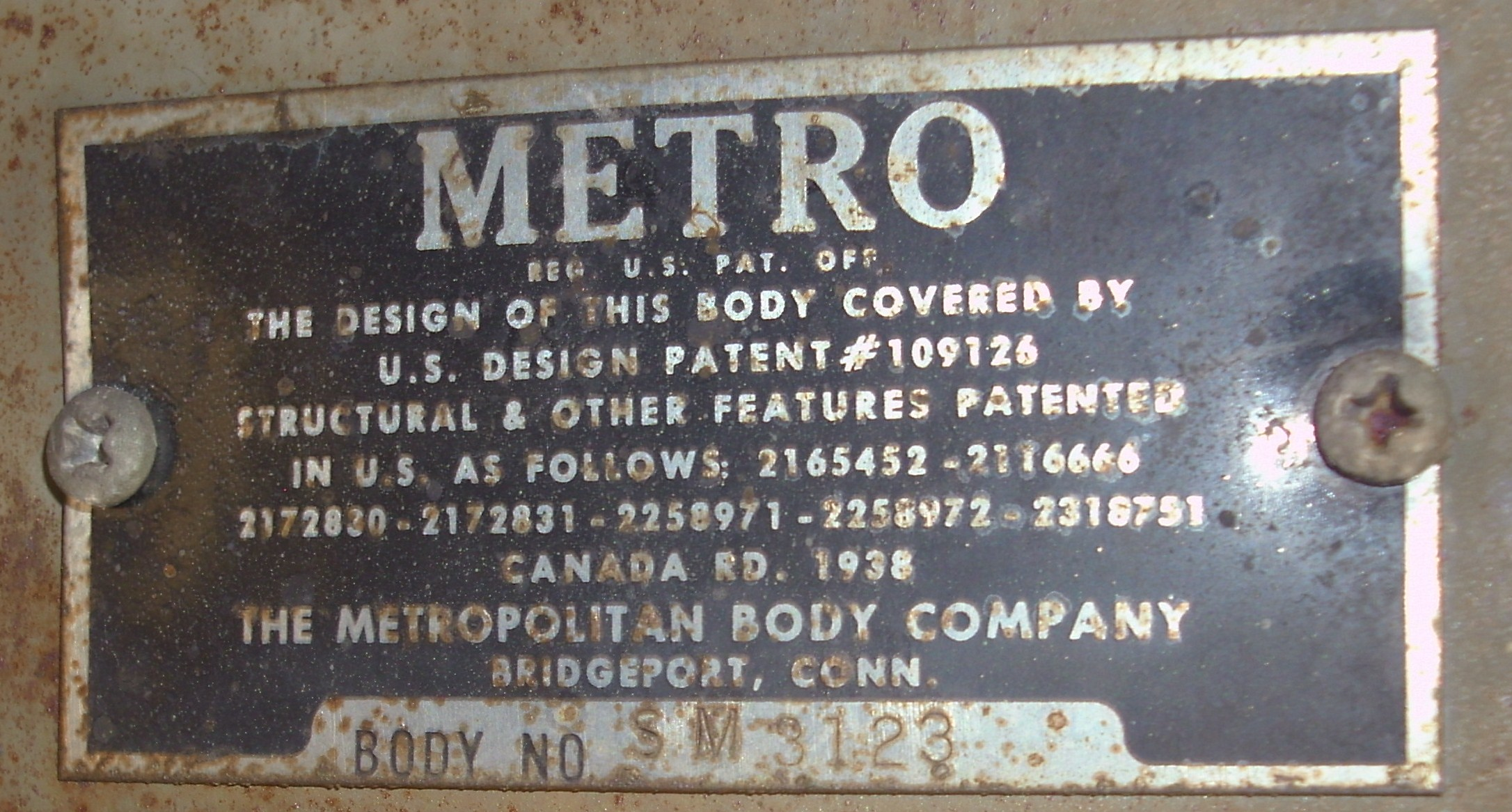 Metropolitan Body Company (International Harvester) body identification plate